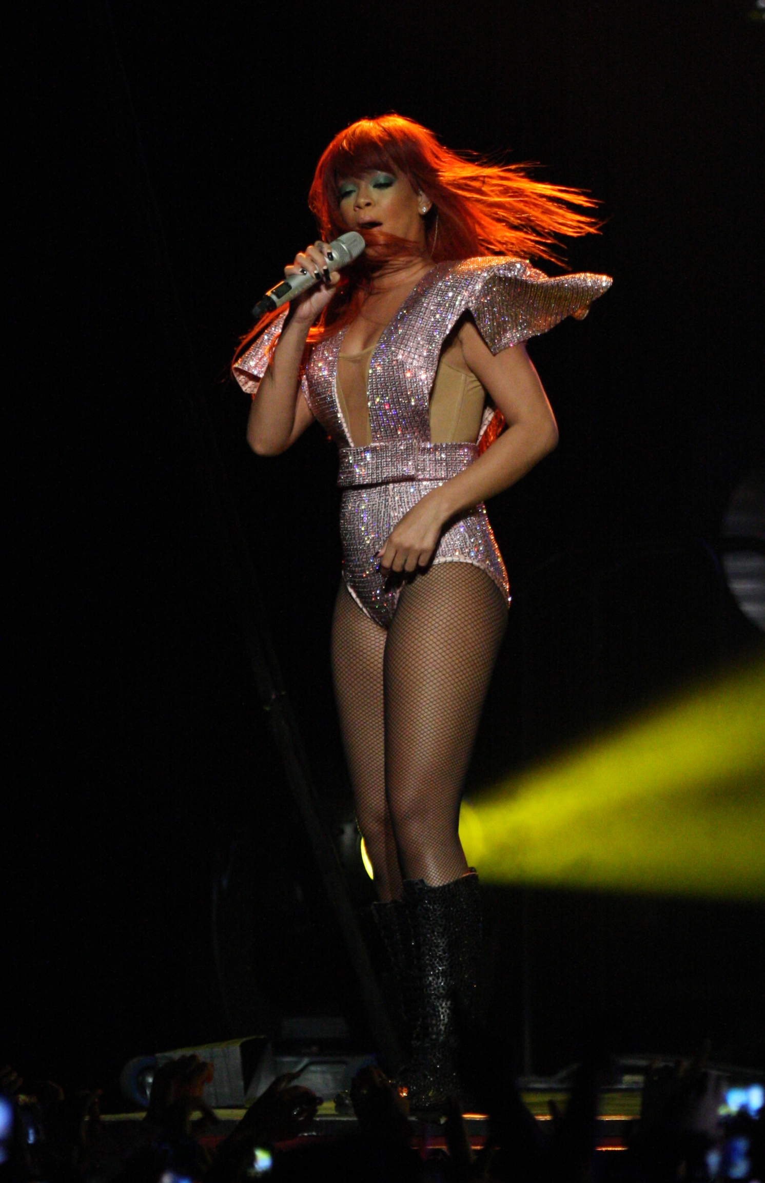 Rihanna performing at her Last Girl On Earth Tour in Sydney, Australia in March 2011.